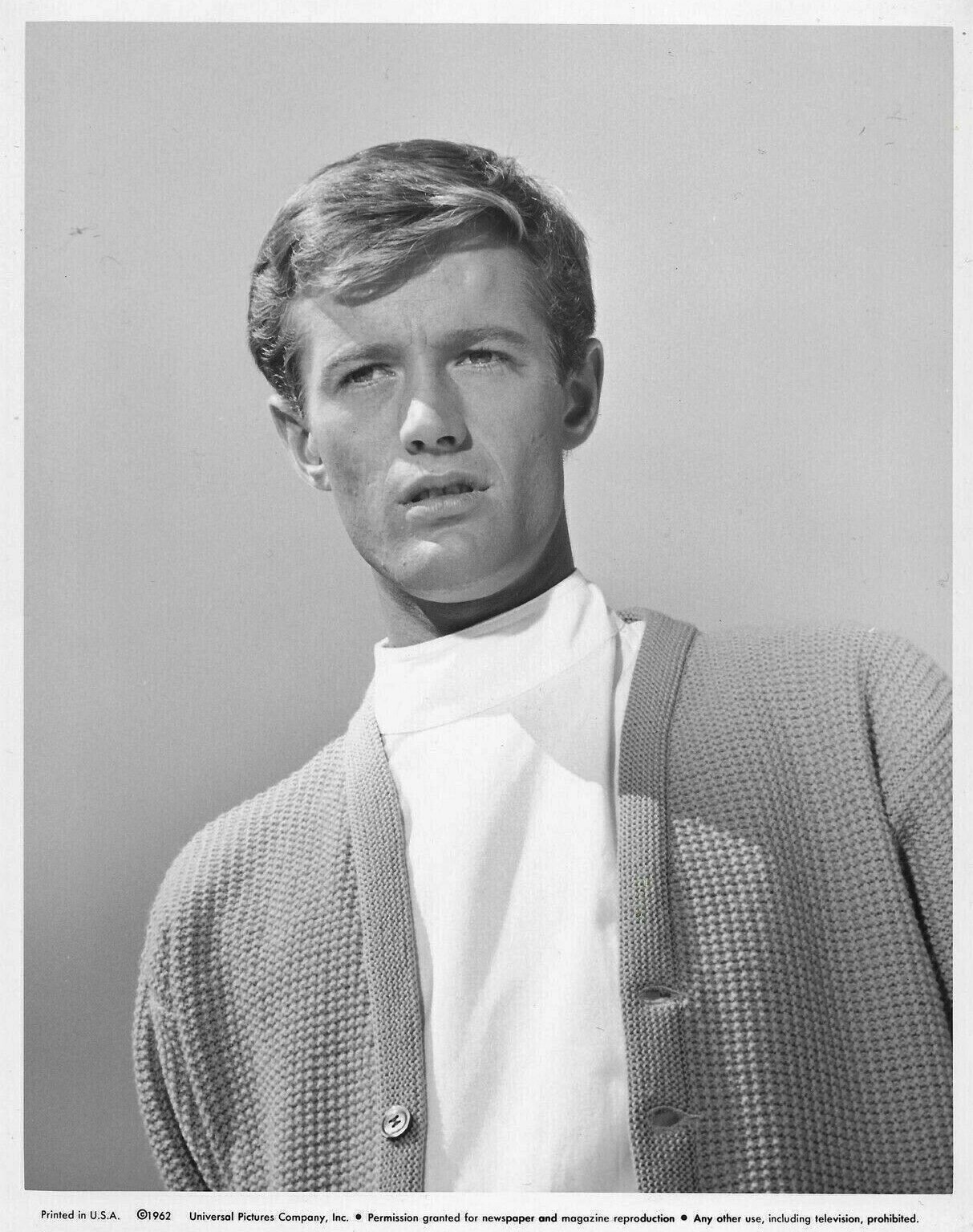 Peter Fonda pictured in 1962 for his film debut in Tammy and the Doctor, released in 1963. Promo Photo, 8x10 inches